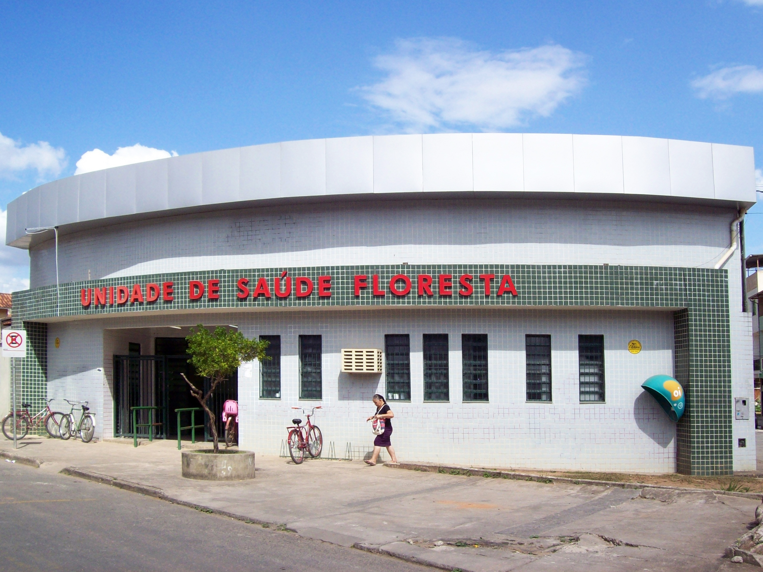 Health center of the Floresta neighborhood, in Coronel Fabriciano, Minas Gerais, Brazil.